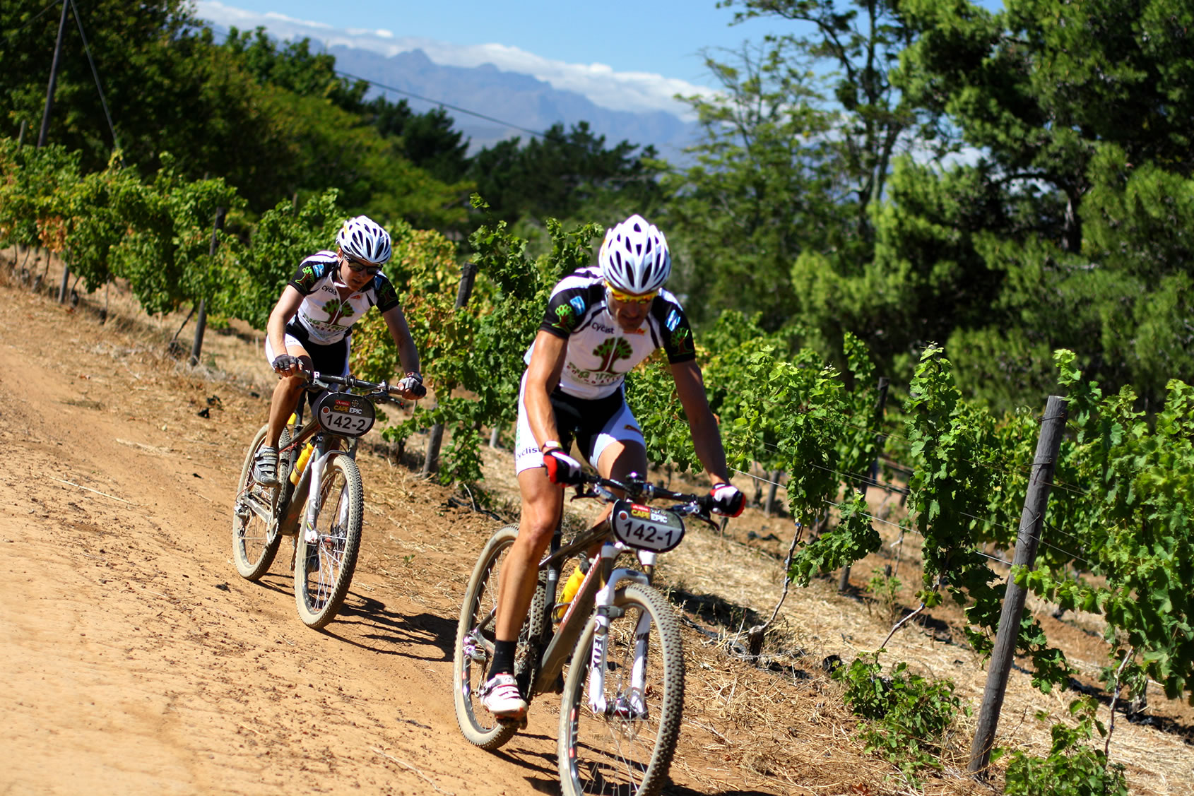 Russell De Jager (South Africa), competing in the event for a 6th time, and teammate Andrea Huser (Switzerland) went on to complete this stage in 1h37m26.